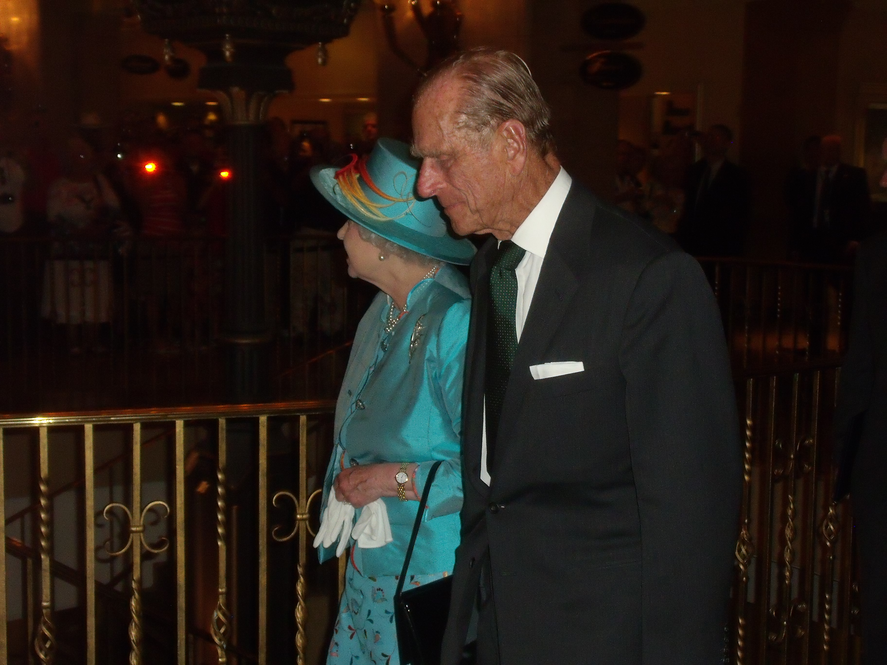 Queen Elizabeth II and Prince Philip, Duke of Edinburgh arriving at the Royal York hotel